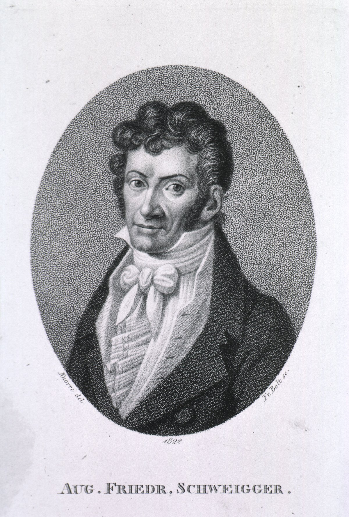 Head and shoulders, in oval, pose slightly left.